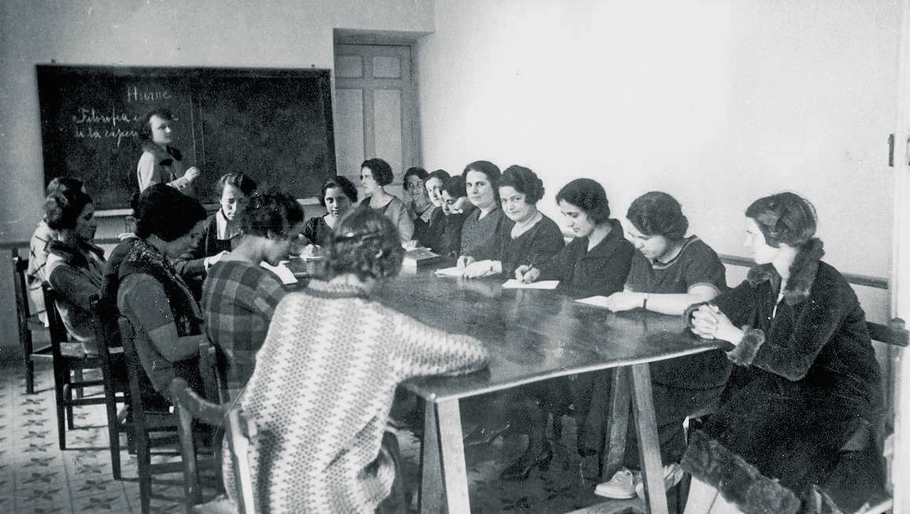 Matilde Marquina